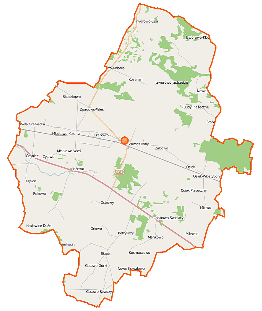 Map of Gmina Zawidz, Poland This map of Zawidz (gmina) was created from OpenStreetMap project data, collected by the community. This map may be incomplete, and may contain errors. Don't rely solely on it for navigation. Border coordinates52.911619.7500←↕→20.009552.7255